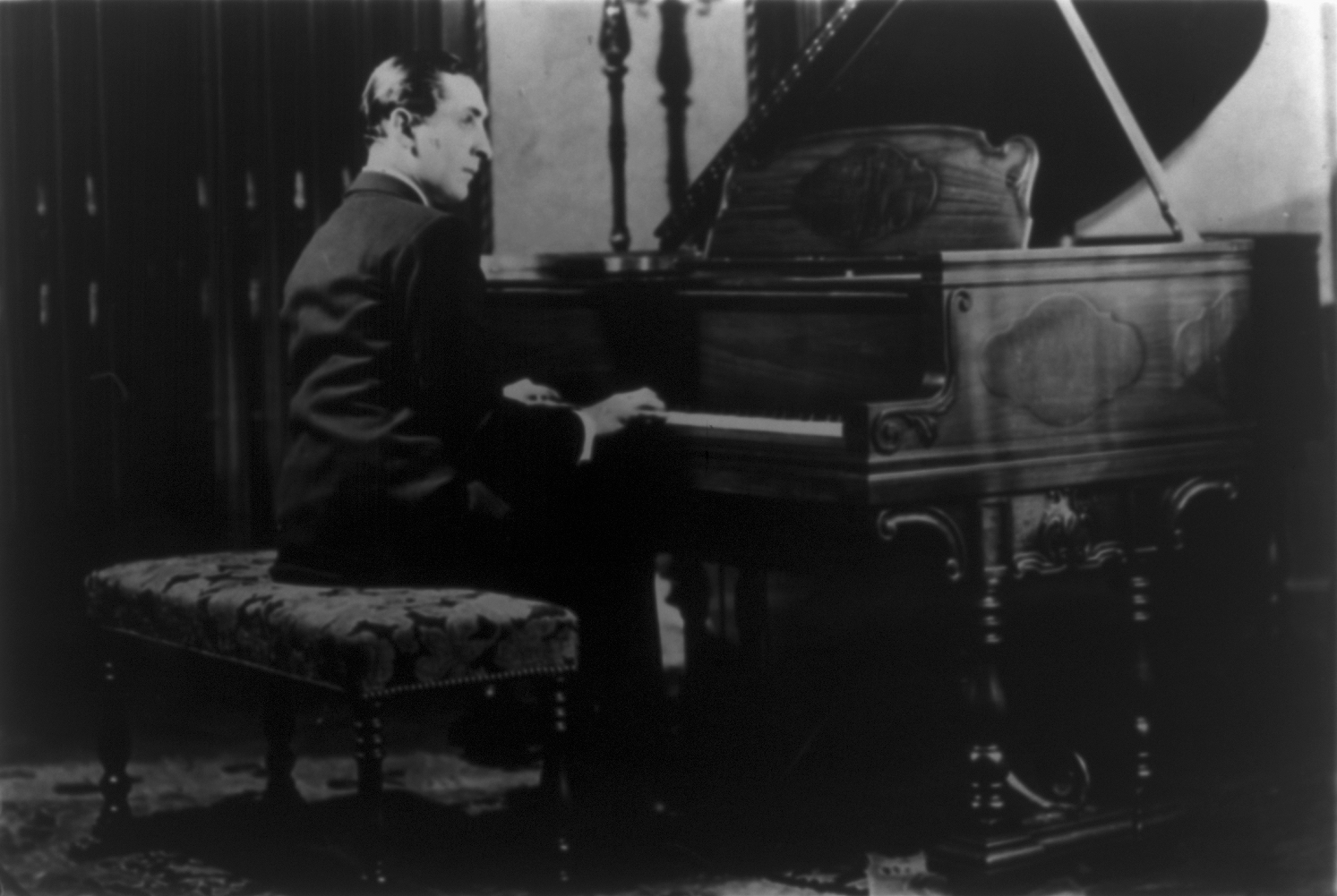 Vladimir Horowitz, full-length photo portrait, seated at piano, right profile.